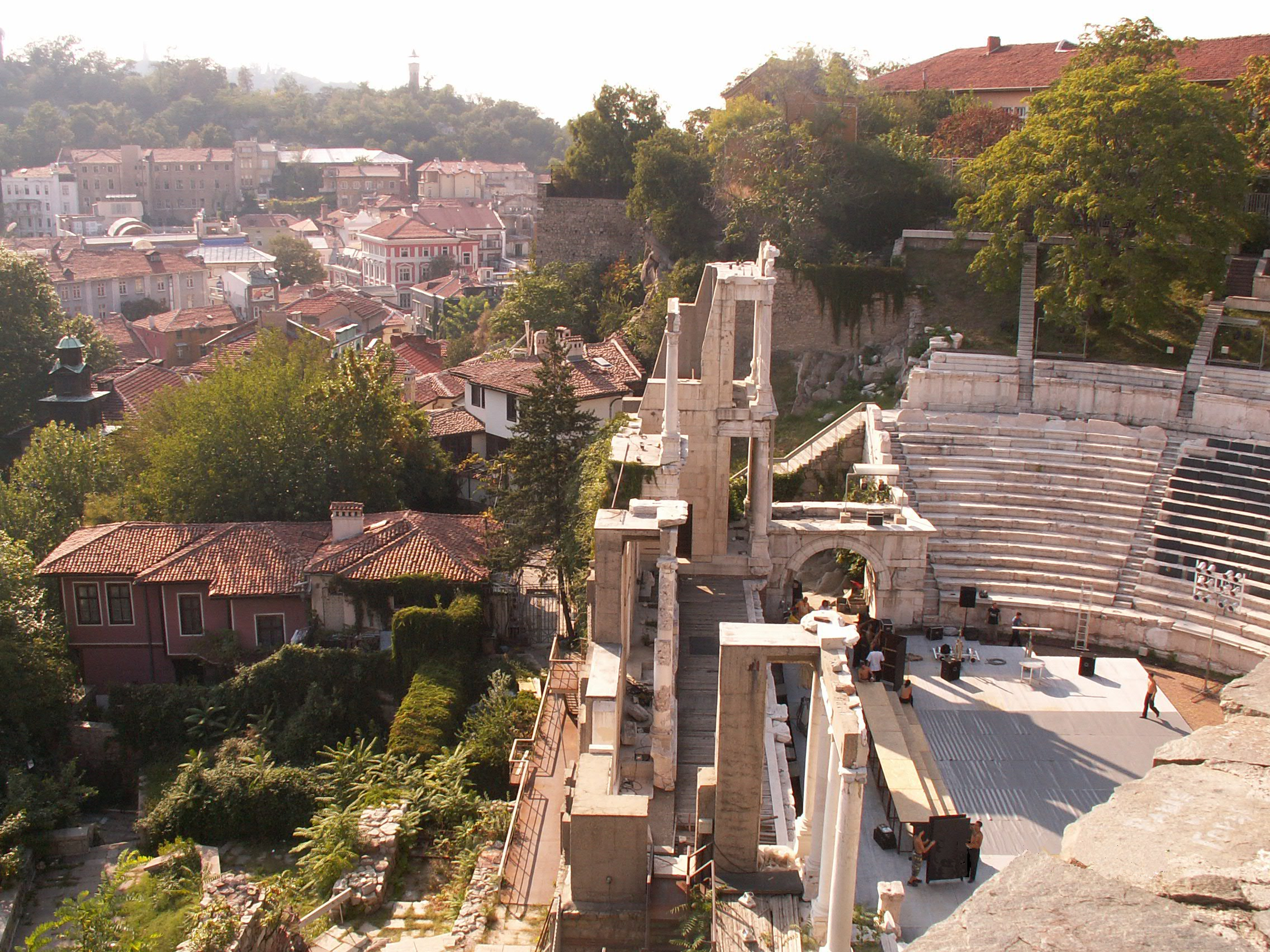 The Ancient Theater in Plovdiv, Bulgaria.